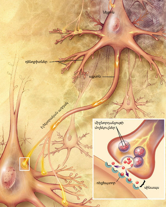 Drawing illustrating the process of synaptic transmission in neurons, cropped from original in an NIA brochure. (in Armenian)